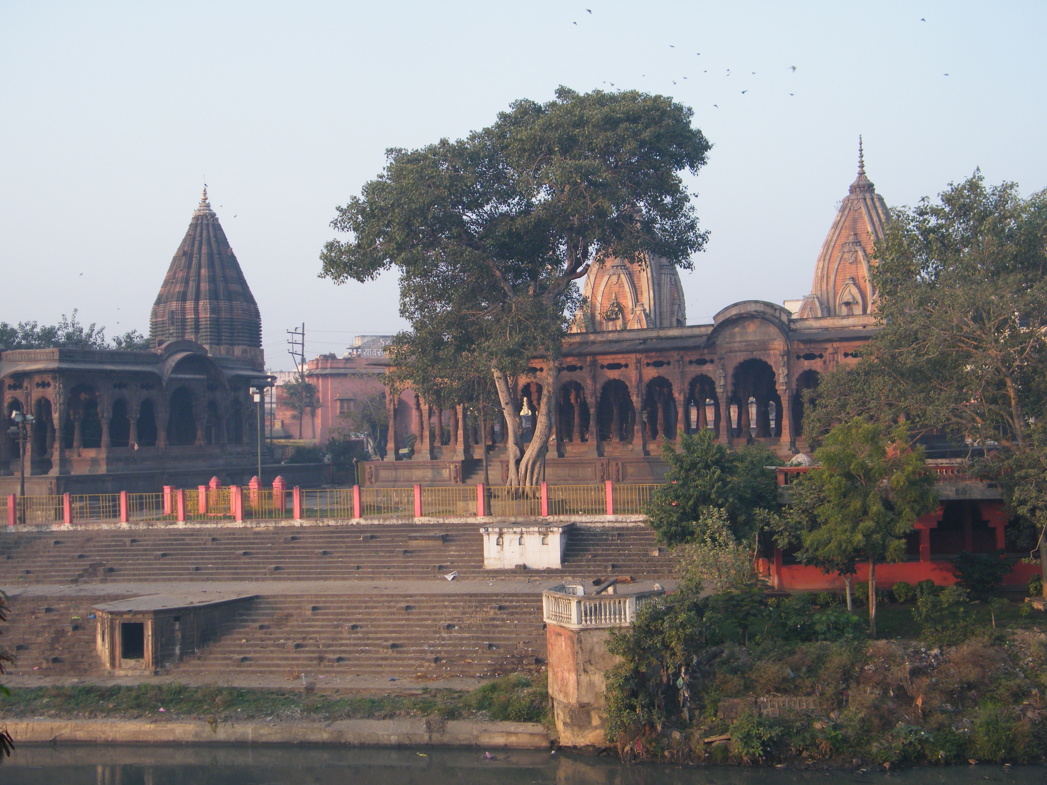 Krishnapura Chhatri on the banks of the much polluted Khan River, Indore.